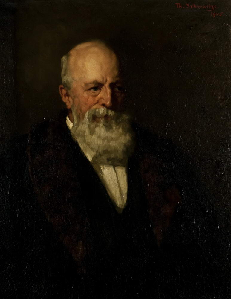 Painting depicting a portrait of Meinard Tydeman.